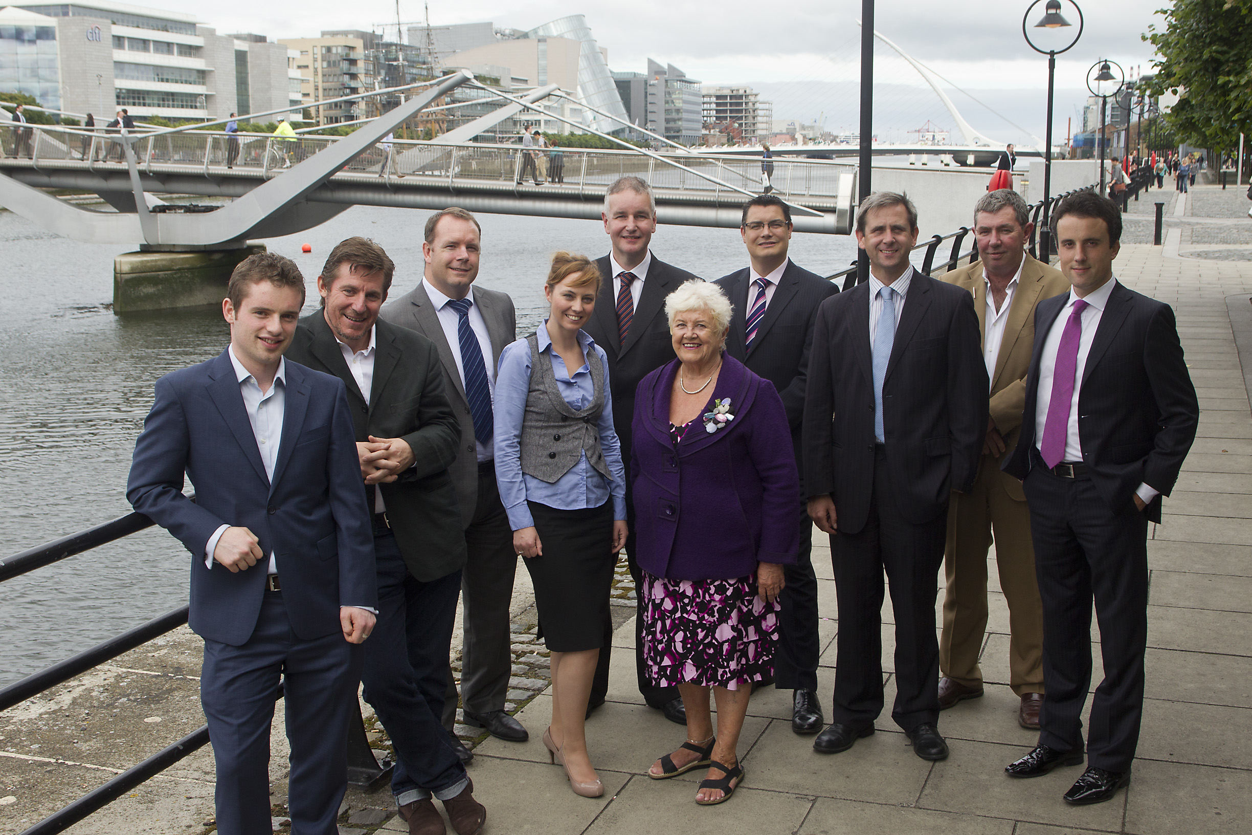 Steering Committee of the Docklands Business Forum